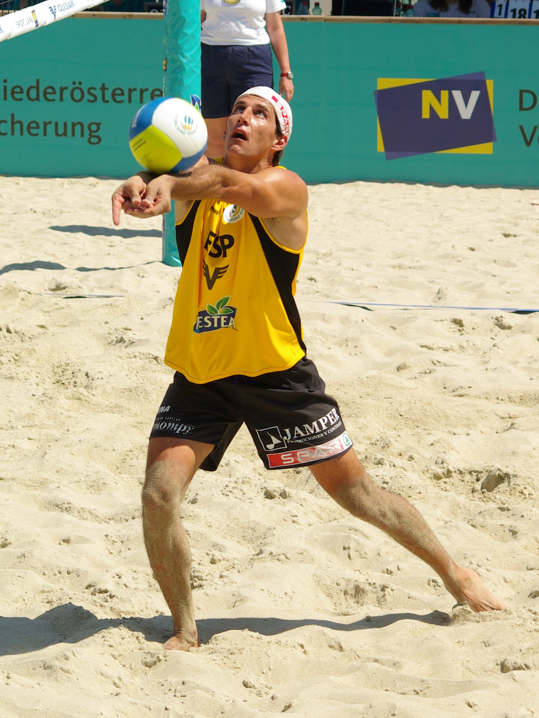 Spanish Beach volleyball player Francisco Javier Luna Pineda at the European Championship Tour 2008 Austrian Masters in St. Pölten.